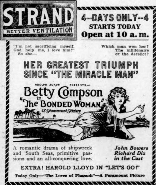 Newspaper advertisement for the American drama film The Bonded Woman (1922) with Betty Compson, on page 7 of the October 7, 1922 Duluth Herald.